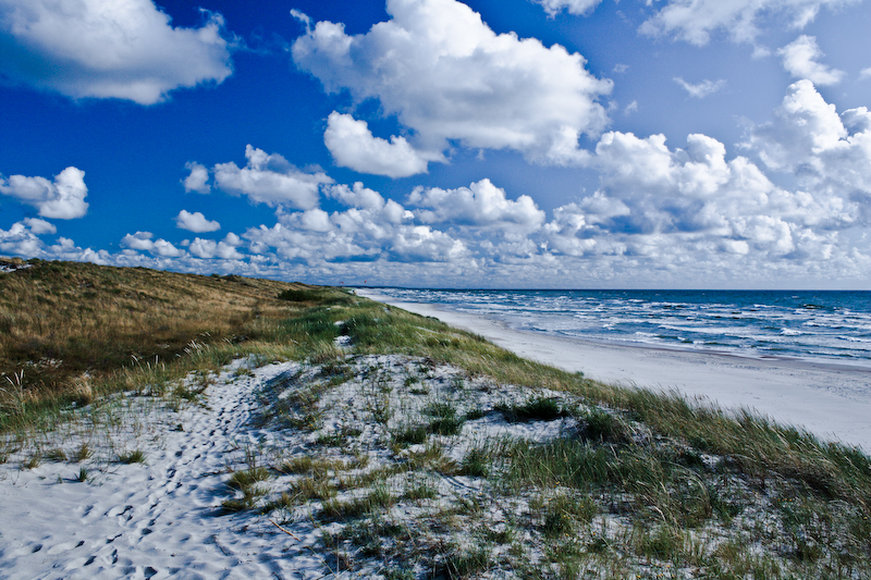 A beach near Palanga town (Lithuania)